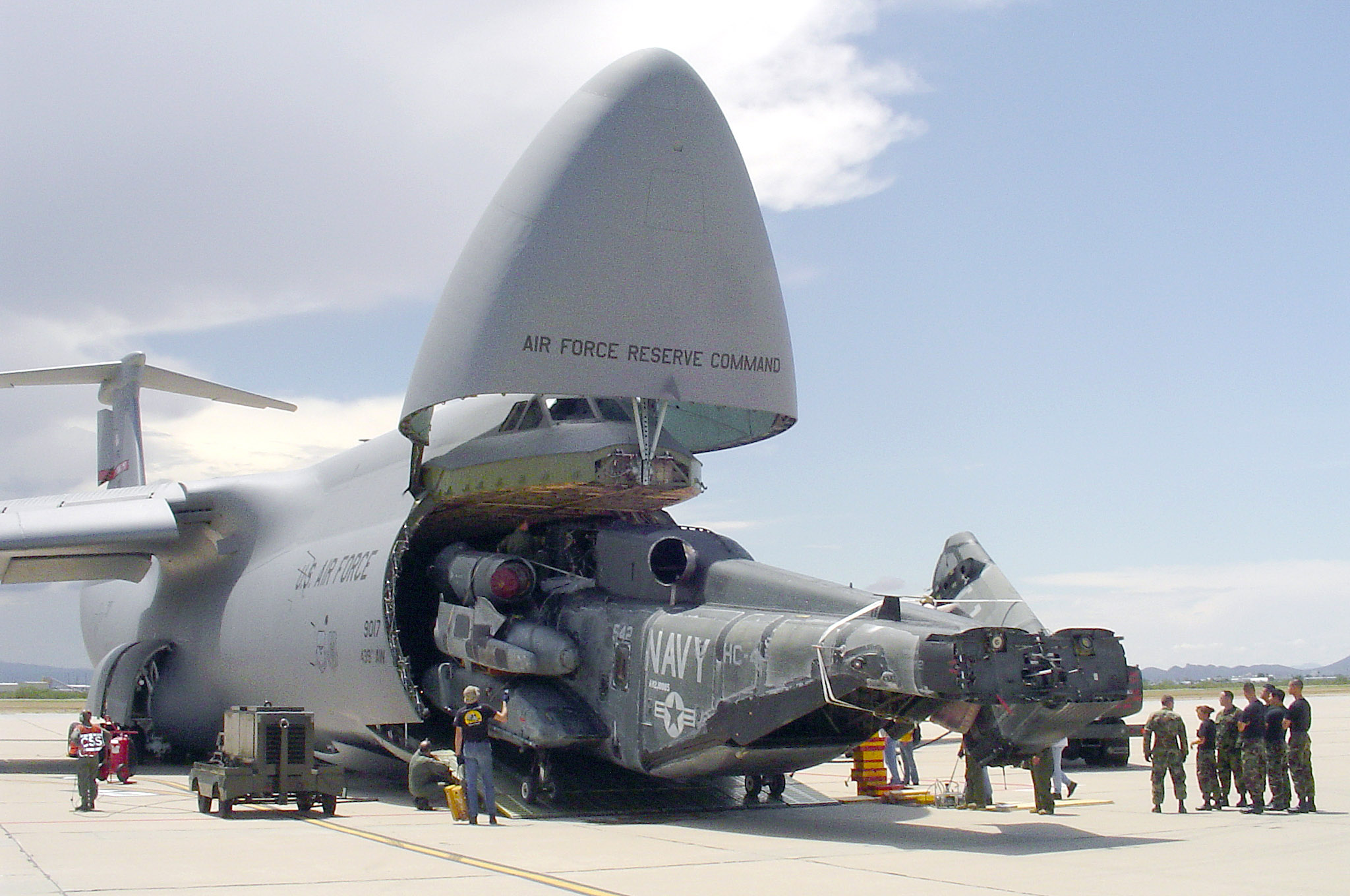 The first of three Navy Sikorsky CH-53E Super Stallion helicopters departing the Aerospace Maintenance and Regeneration Center at Davis-Monthan Air Force Base, Arizona (USA), for Marine Corps Air Station Cherry Point, North Carolina (USA), reaches the half-way point during loading into an U.S. Air Force Lockheed C-5A Galaxy (s/n 69-0017) from the 337th Airlift Squadron, 439th Airlift Wing, U.S. Air Force Reserve, on 8 August 2005.